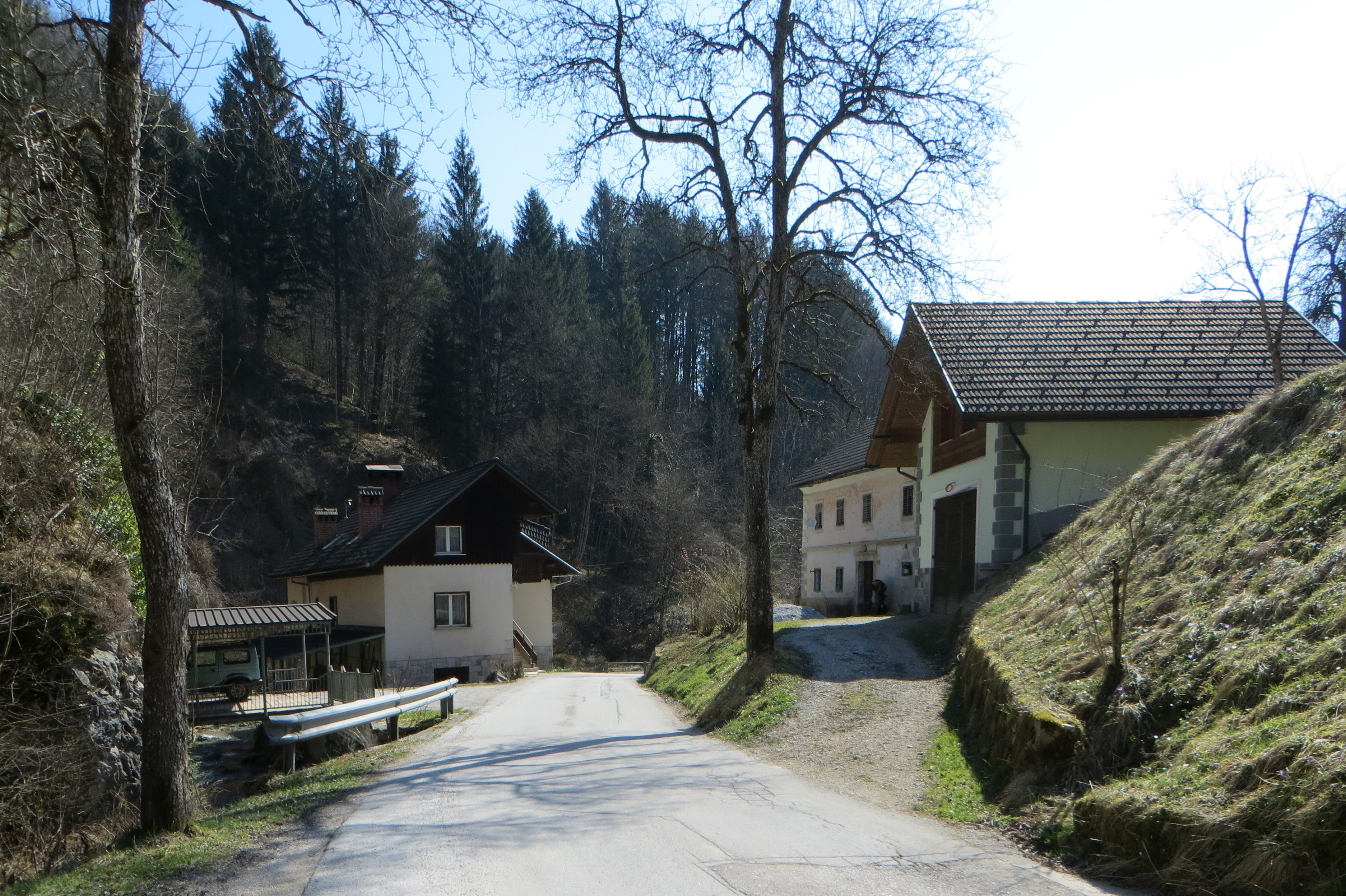 Volaka, Municipality of Gorenja Vas–Poljane, Slovenia